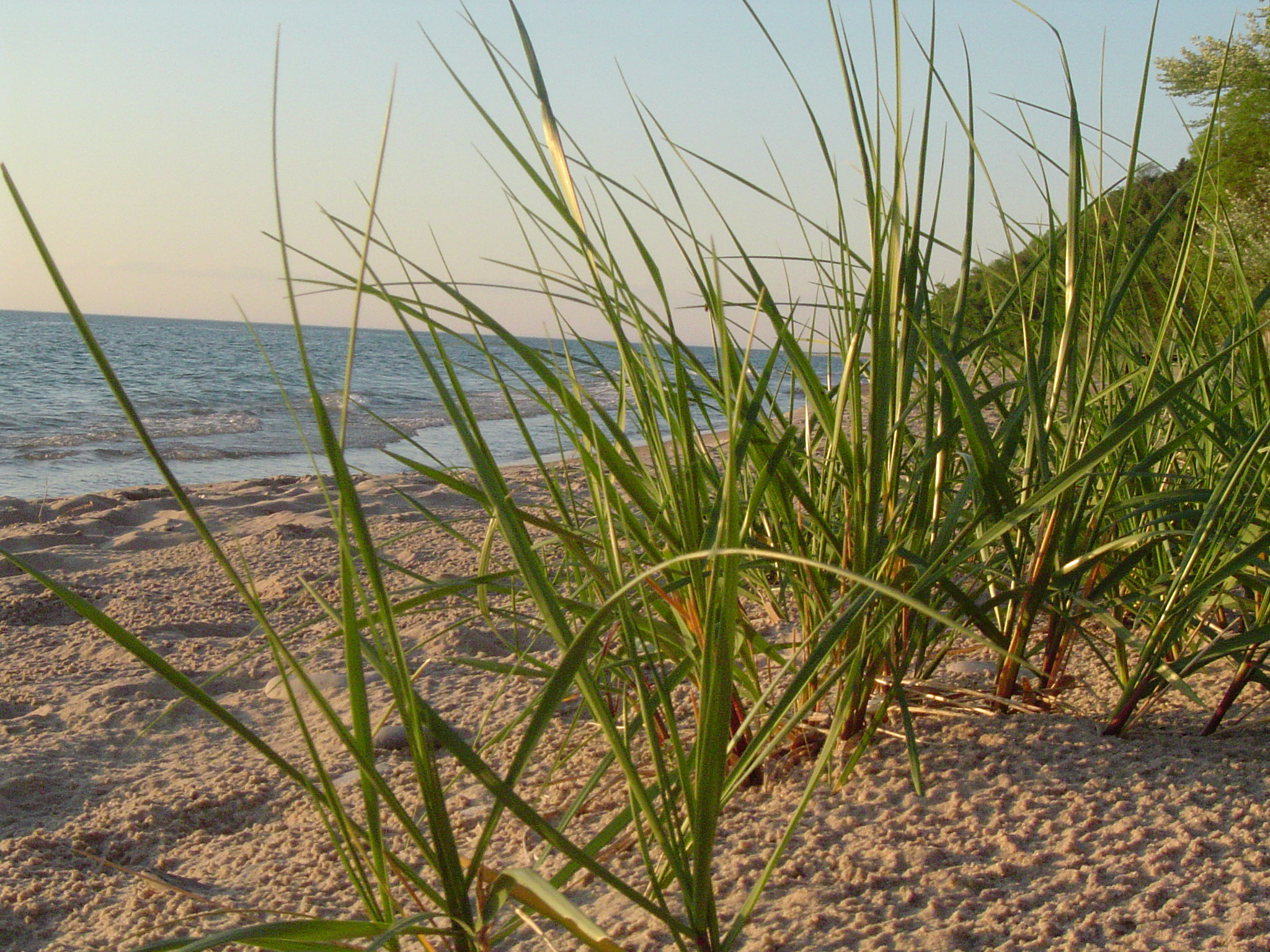 Photograph of Ammophila breviligulata (American beachgrass) in June on the shores of Lake Michigan, apparently near Leland, Michigan.